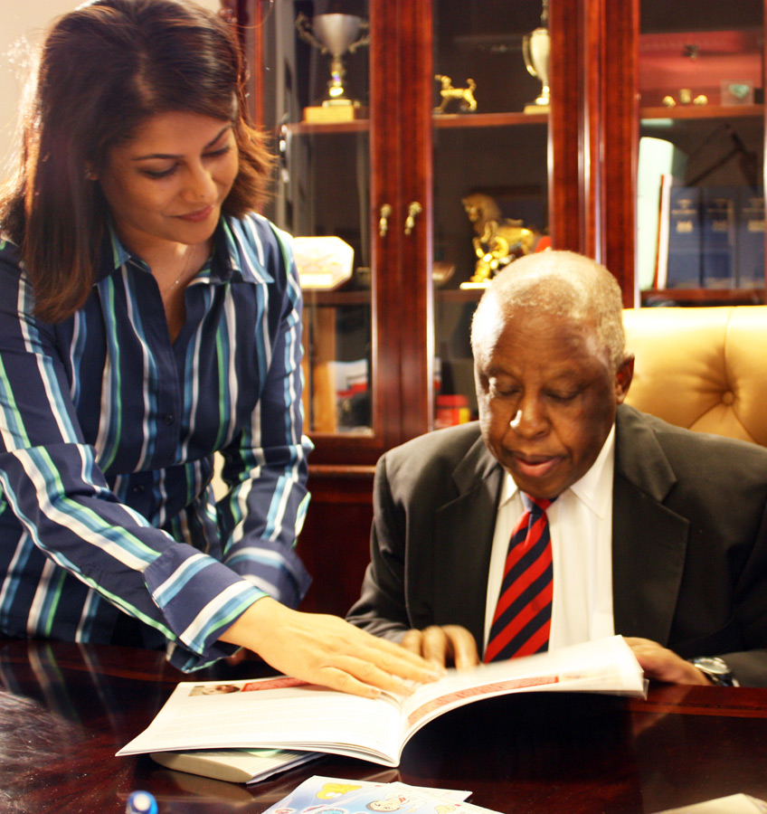 His Excellency, Former President of Botswana, Festus Mogae, Special Advisor to TeachAIDS, with TeachAIDS founder and CEO Piya Sorcar Photo credit: TeachAIDS